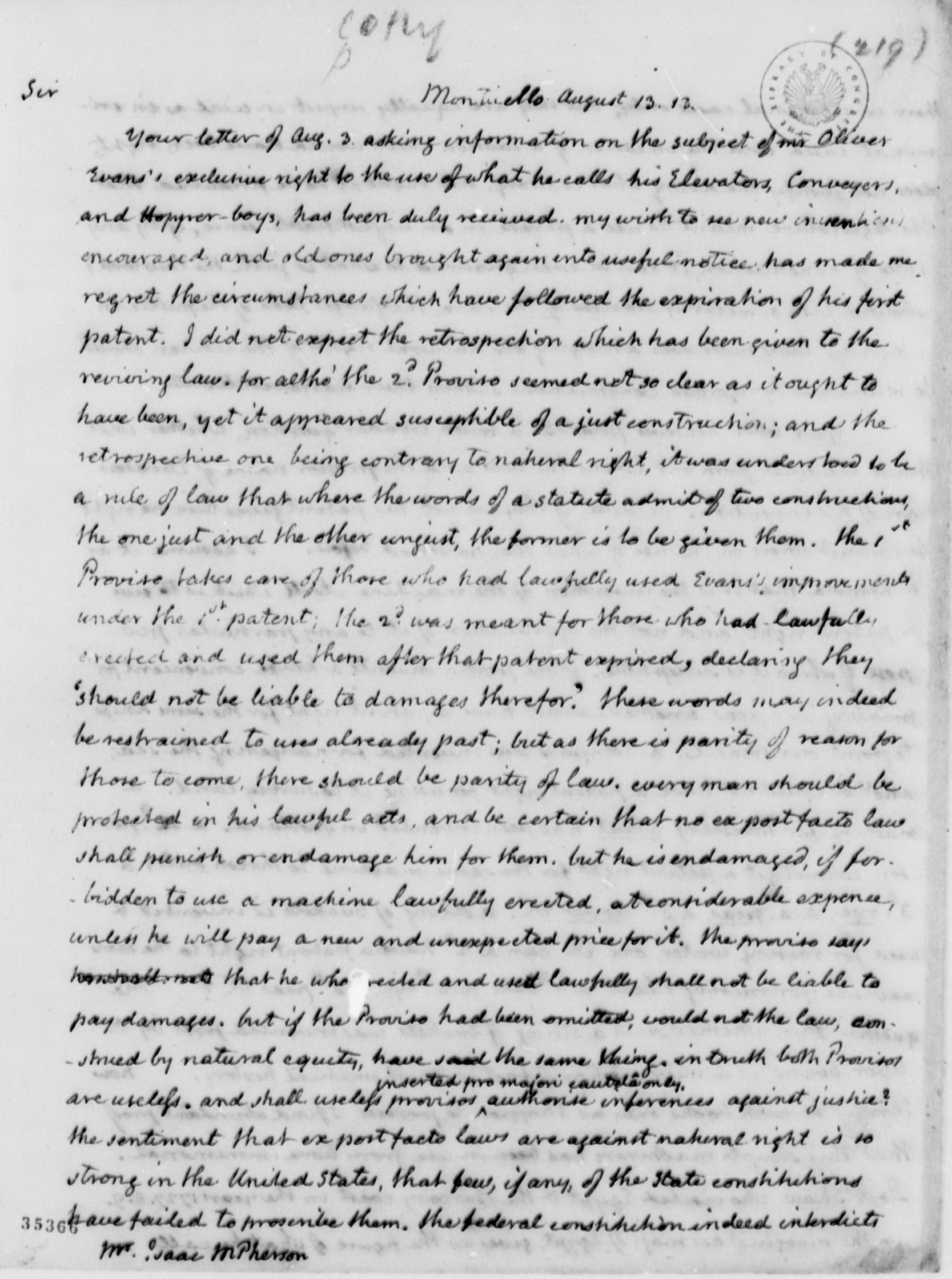 Letter from Thomas Jefferson to Isaac McPherson (1813) discussing his views on intellectual property and the validity of Oliver Evans' patents.